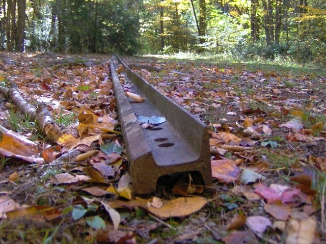 A railroad beam along the Middle Prong Trail, in the Great Smoky Mountains National Park of East Tennessee — located in the Southeastern United States. A few such stray beams, ties, and skidder cables are all that remain of the Little River Railroad in Tremont. The railroad aided logging operations in the area 1926-1938.